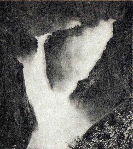 The image shows Rjukanfossen ca. 1900.